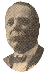 José Bacigaluppi, River Plate chairman in the 1920s and 30s